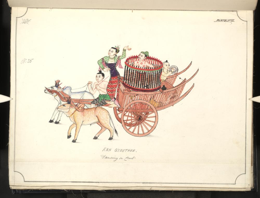 Watercolour painting by an unknown Burmese artist depicting 19th century Burmese life. Caption: "Kah Gyeethee. Dancer on cart." "Here we have a Kah Gyee Thee or Dancer, with a small company of musicians [...] She stands in front of the Cart keeping time to the music by the movements and contortions of her body and limbs, but barely moving her feet. In this particular case, the Cart is being driven slowly before some great offering to a Pagoda or Monastery, or at what is called a "life freeing feast"." More description at [1]